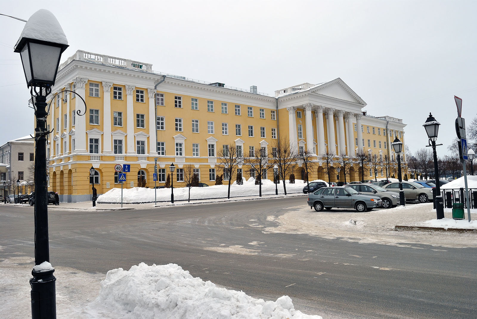 KFU_chemical_institute Татарча/tatarça: QFU khimiya instituti